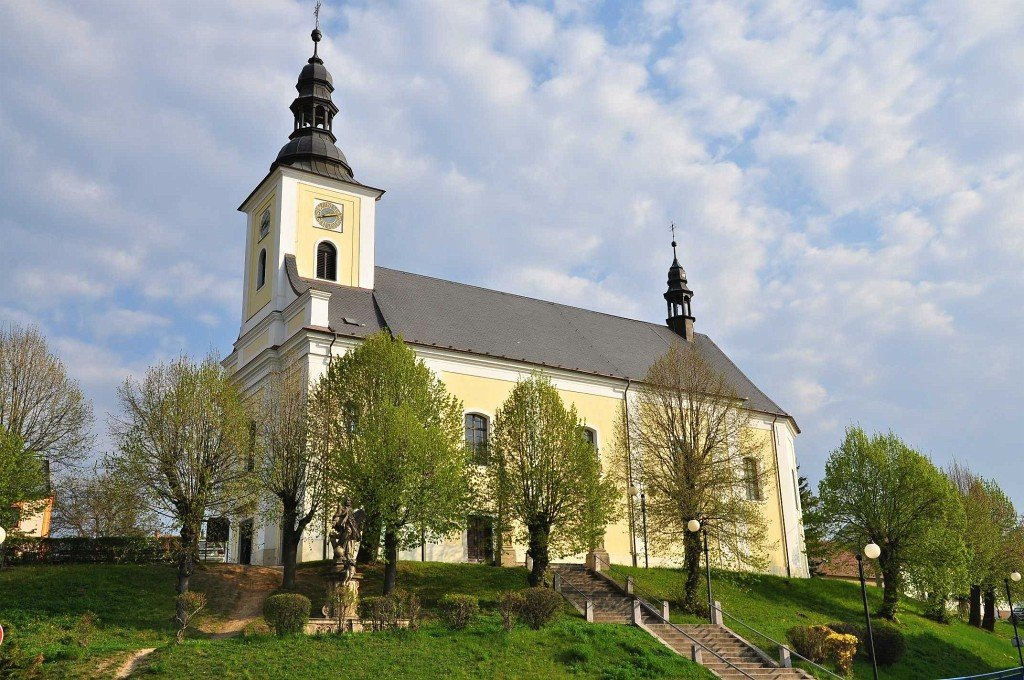 Church of Saint George in Velké Opatovice, Blansko District, the Czech Republic.